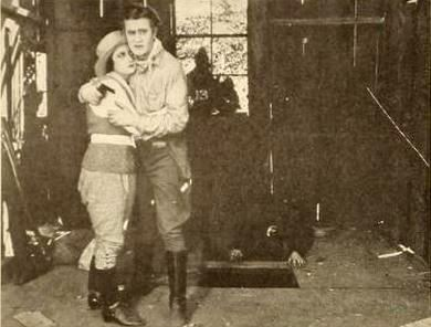 Still from the American film serial The Mystery of 13 (1919) with Rosemary Theby and Francis Ford, page 1448 of the August 16, 1919 Motion Picture News.